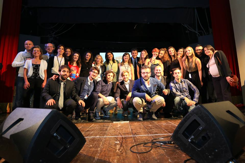 Lo staff del FFF 2014